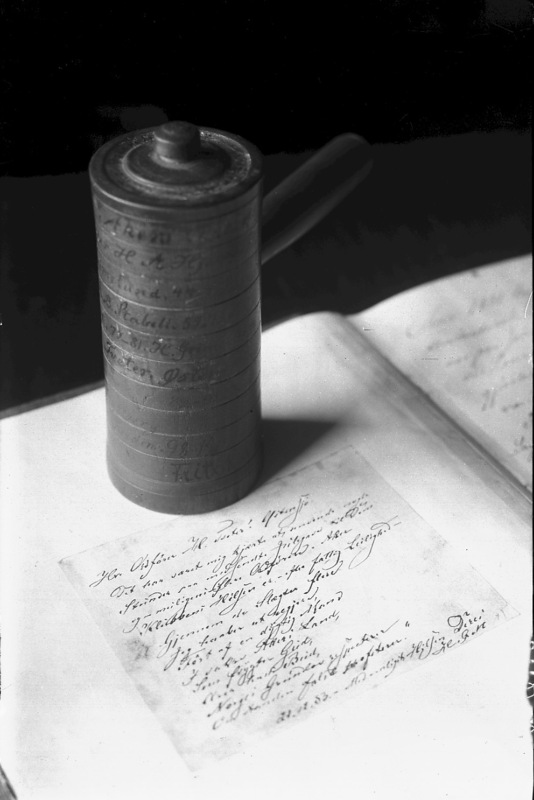 DocumentNorsk bokmål: Dokument